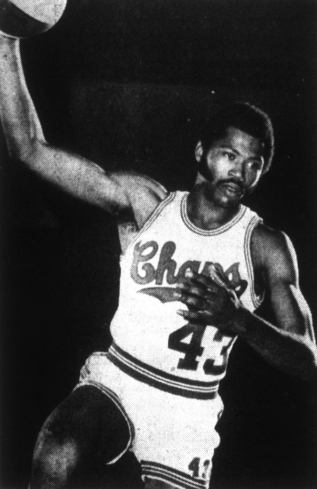 Professional basketball player Manny Leaks